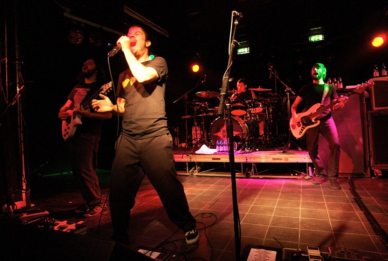 photo of Funeral for a Friend, screamo band from Wales.